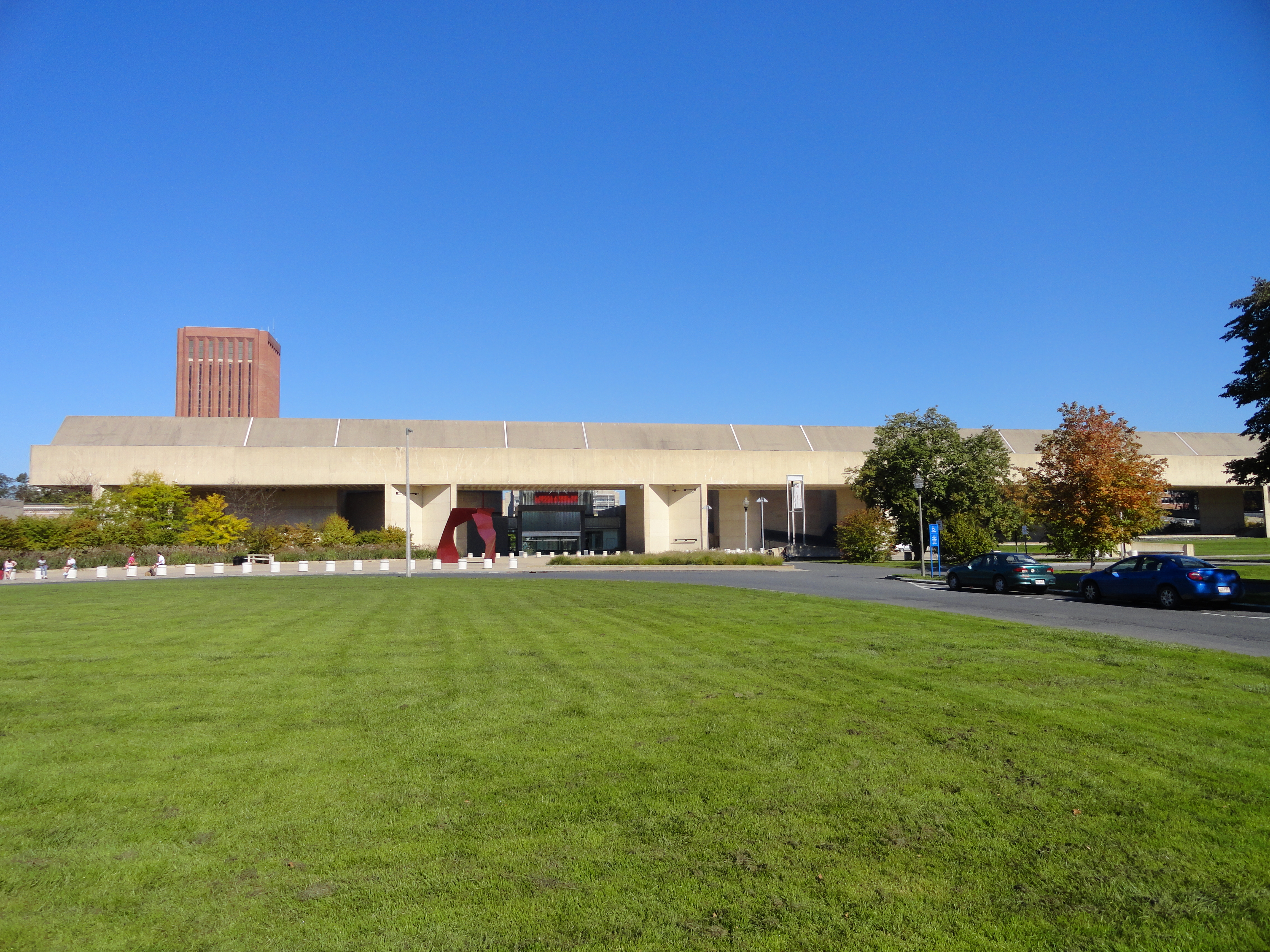 The Fine Arts Center at the University of Massachusetts Amherst.